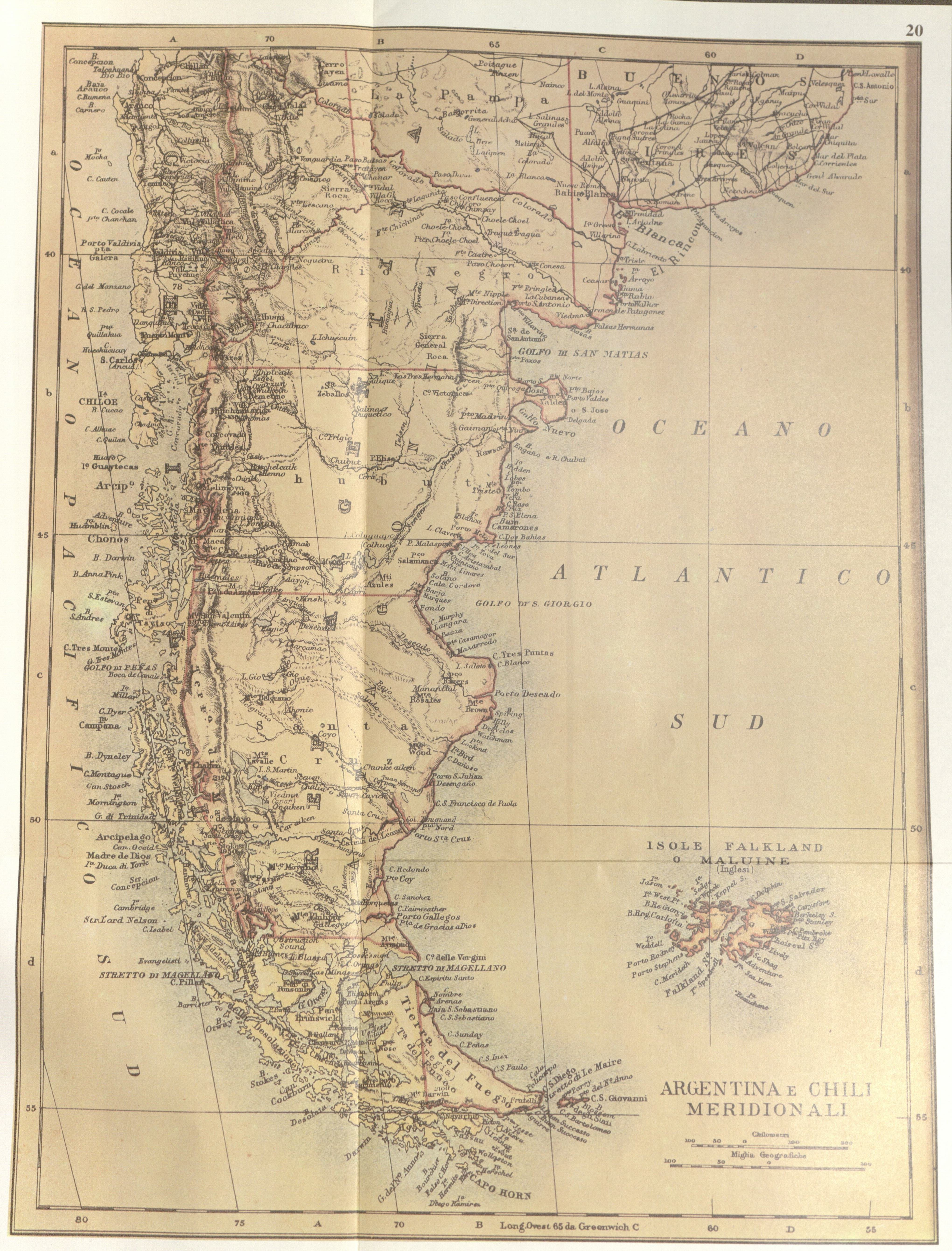 The map "Argentina e Chili meridionali" (Southern Argentina and Chile) partially reproduced here is included in the work "Atlante Mondiale Hoepli", by Giovanni Roncagli, Naval Lieutenant and Secretary General of the Italian Geographical Society and published in Milan in 1899. In this map there is no international boundary traced in the Beagle Channel, but differences in the coulorings given to the territories belonging to Chile and Argentina show Chilean sovereignty over Picton, Nueva and Lennox Islands and all the other islands extending southward as far as Cape Horn.